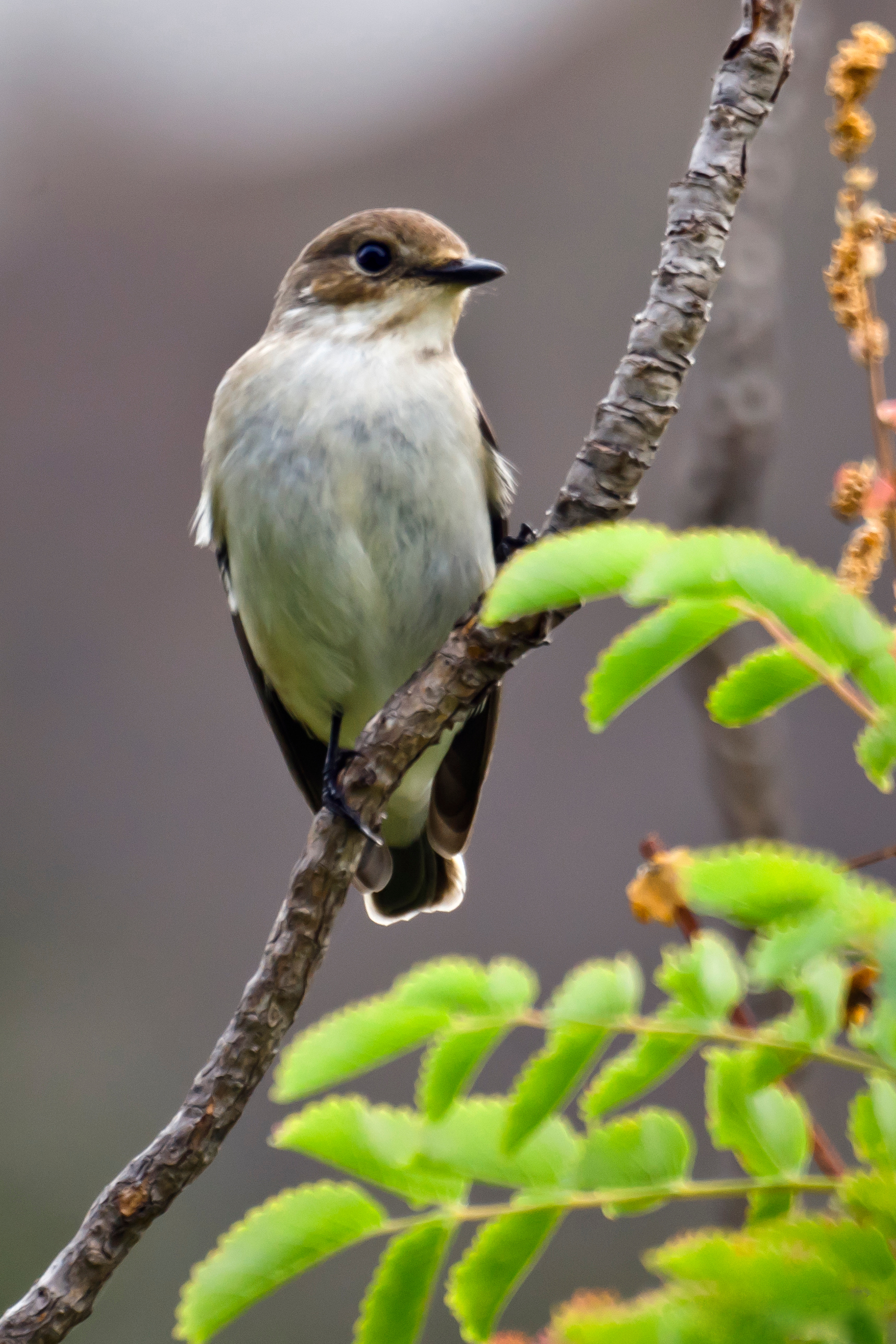 A female European Pied Flycatcher in Gran Canaria, Canary Islands, Spain.